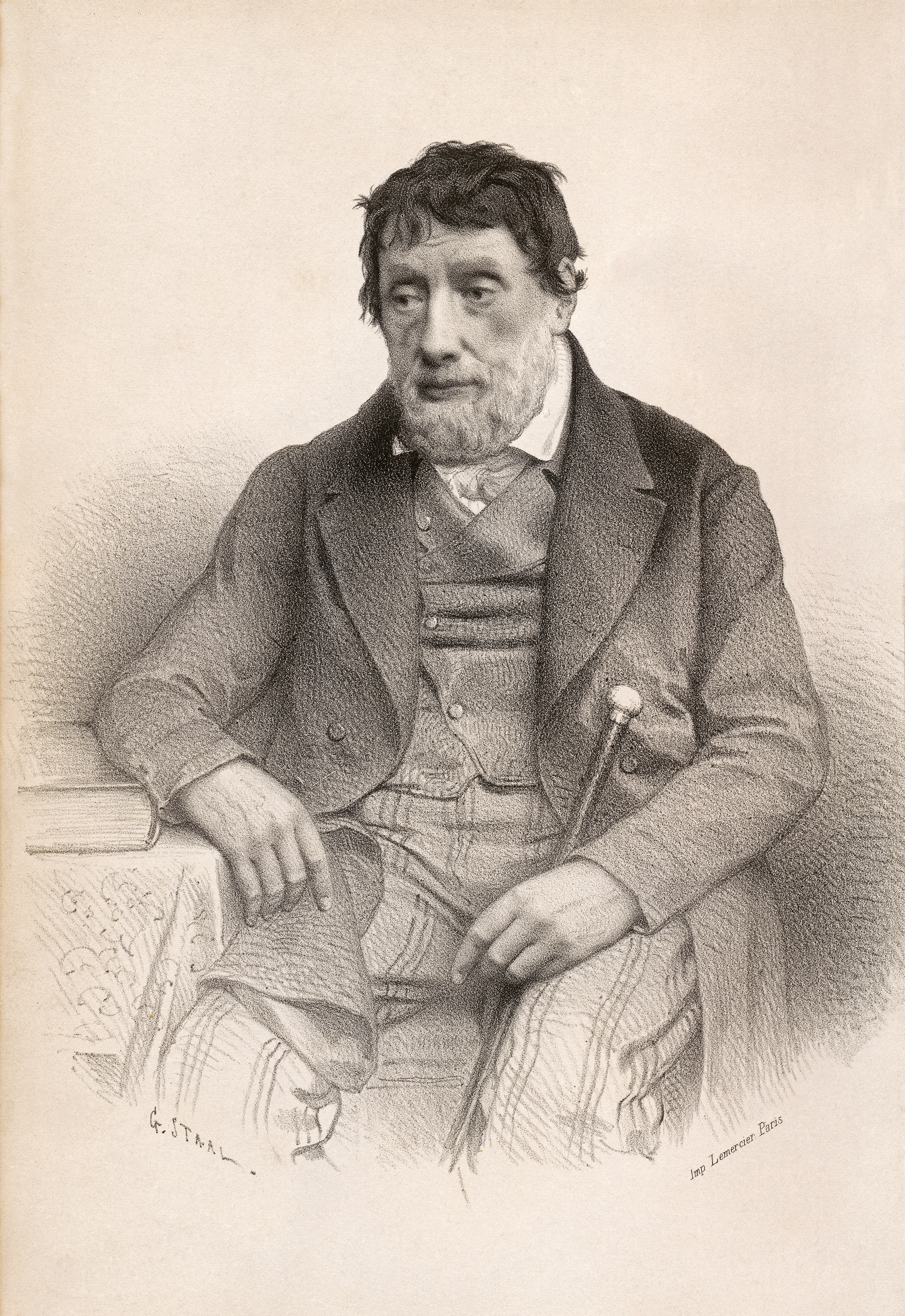 Louis Moinet's portrait